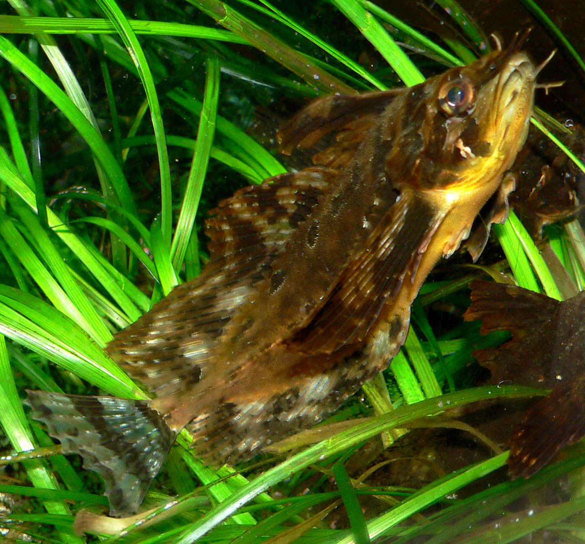 Photo of Blepsias cirrhosus (silverspotted sculpin) at the Vancouver Aquarium